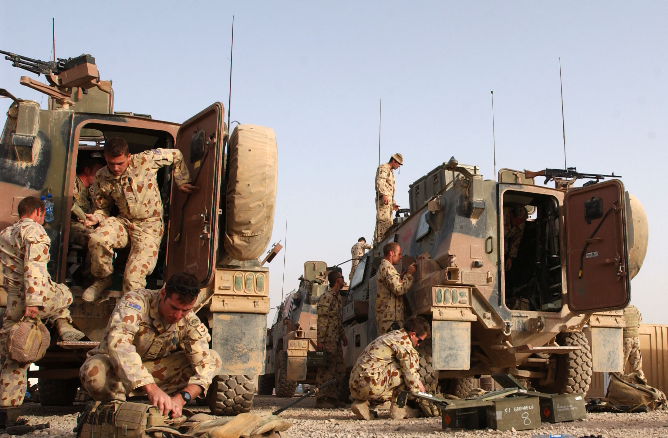 Soldiers from 2nd Platoon, 3rd Battalion (Para), Royal Australian Regiment, ready their bushmaster vehicles prior to departing on an International Security Assistance Force mission patrolling the town of Tarin Kowt, Uruzgan, Aug. 16, 2008.